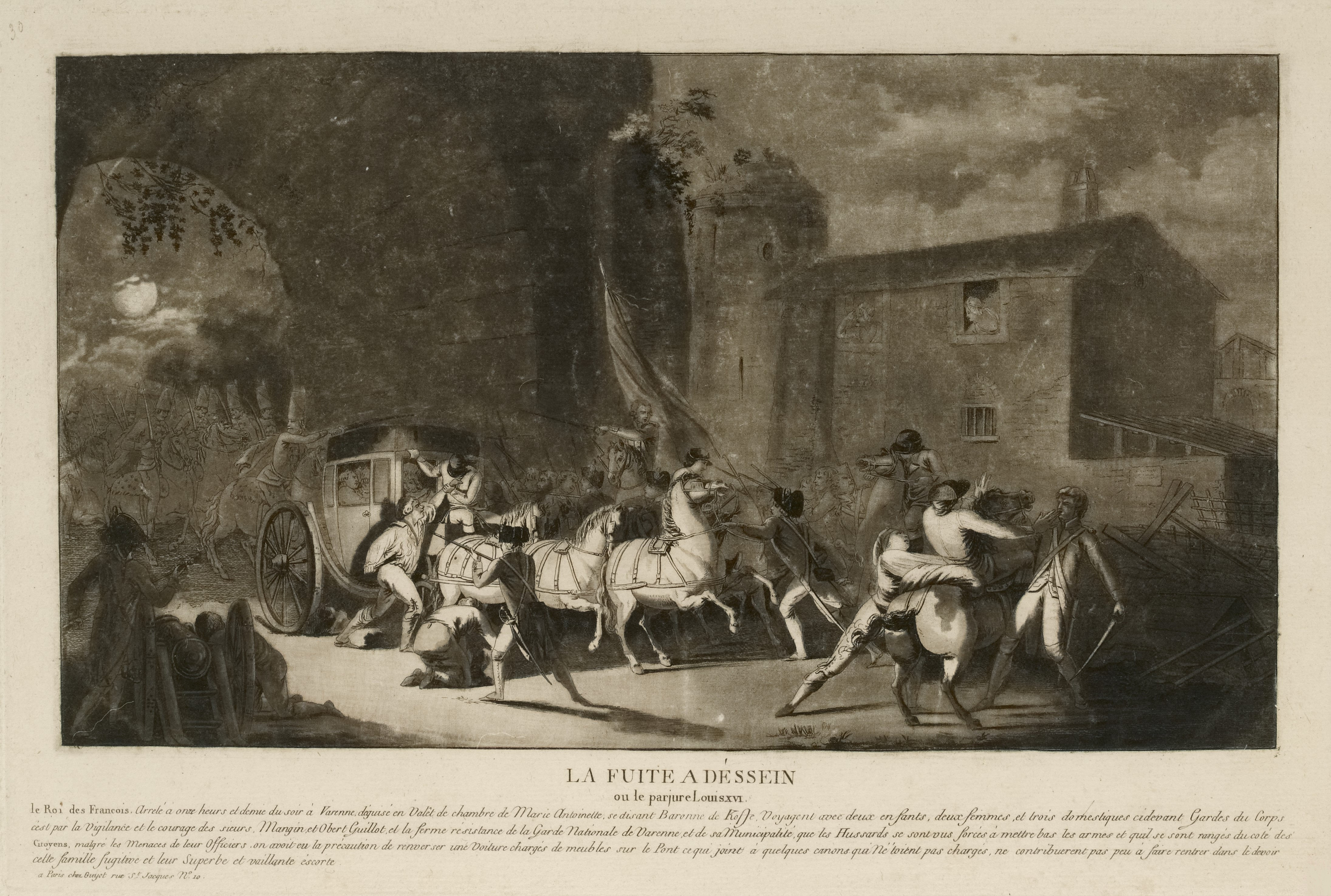 The Flight to Varennes of King Louis XVI of France